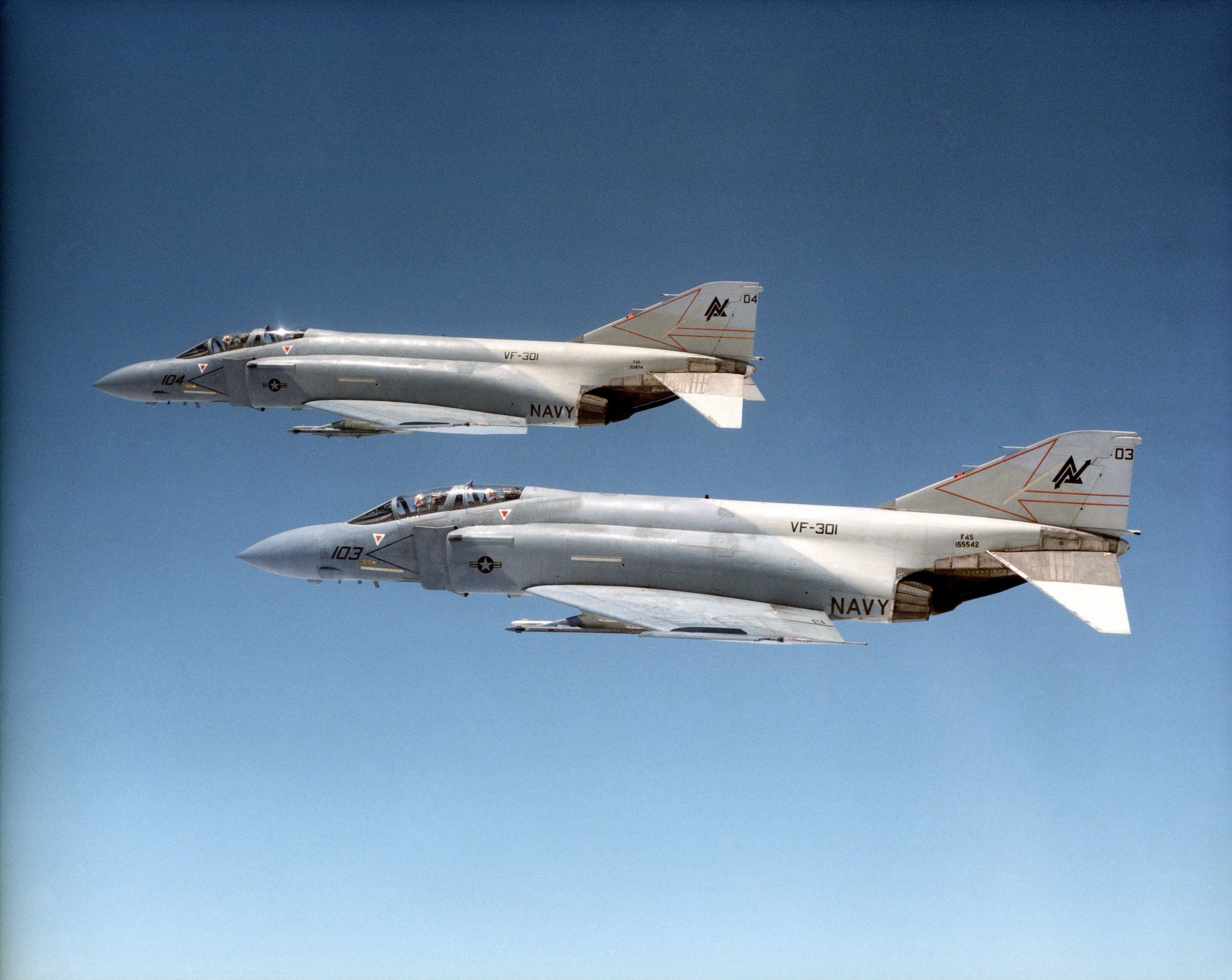 Port view of two F-4S Phantom II, Fighter Squadron (VF)-301, Devil's Disciples, NAS Miramar, in flight.